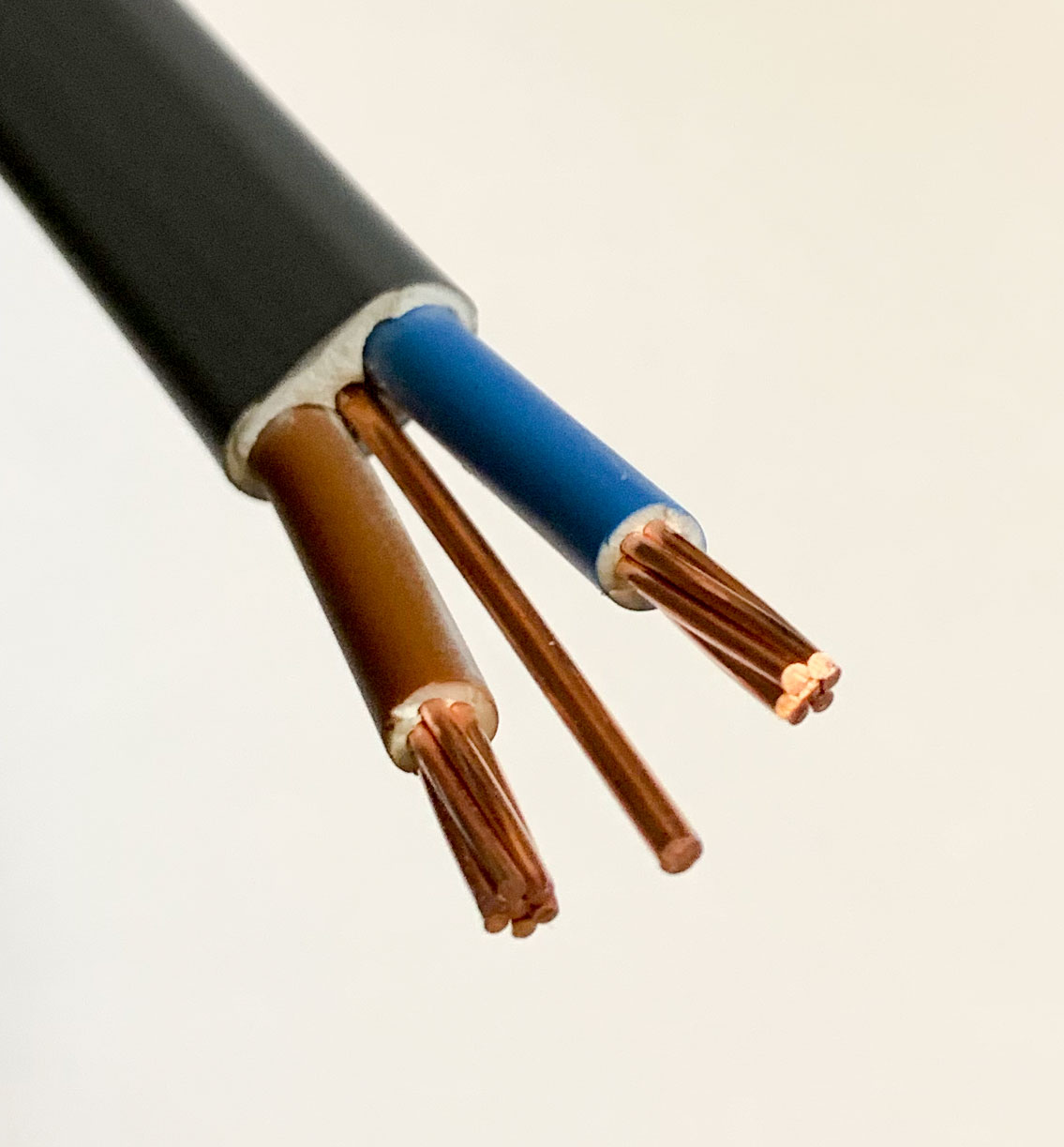 'Twin and Earth' electrical cable, as commonly used in the United Kingdom and other countries. Made to comply with British Standard BS 6004 2x 6 mm² + 1x 2.5 mm² copper conductors